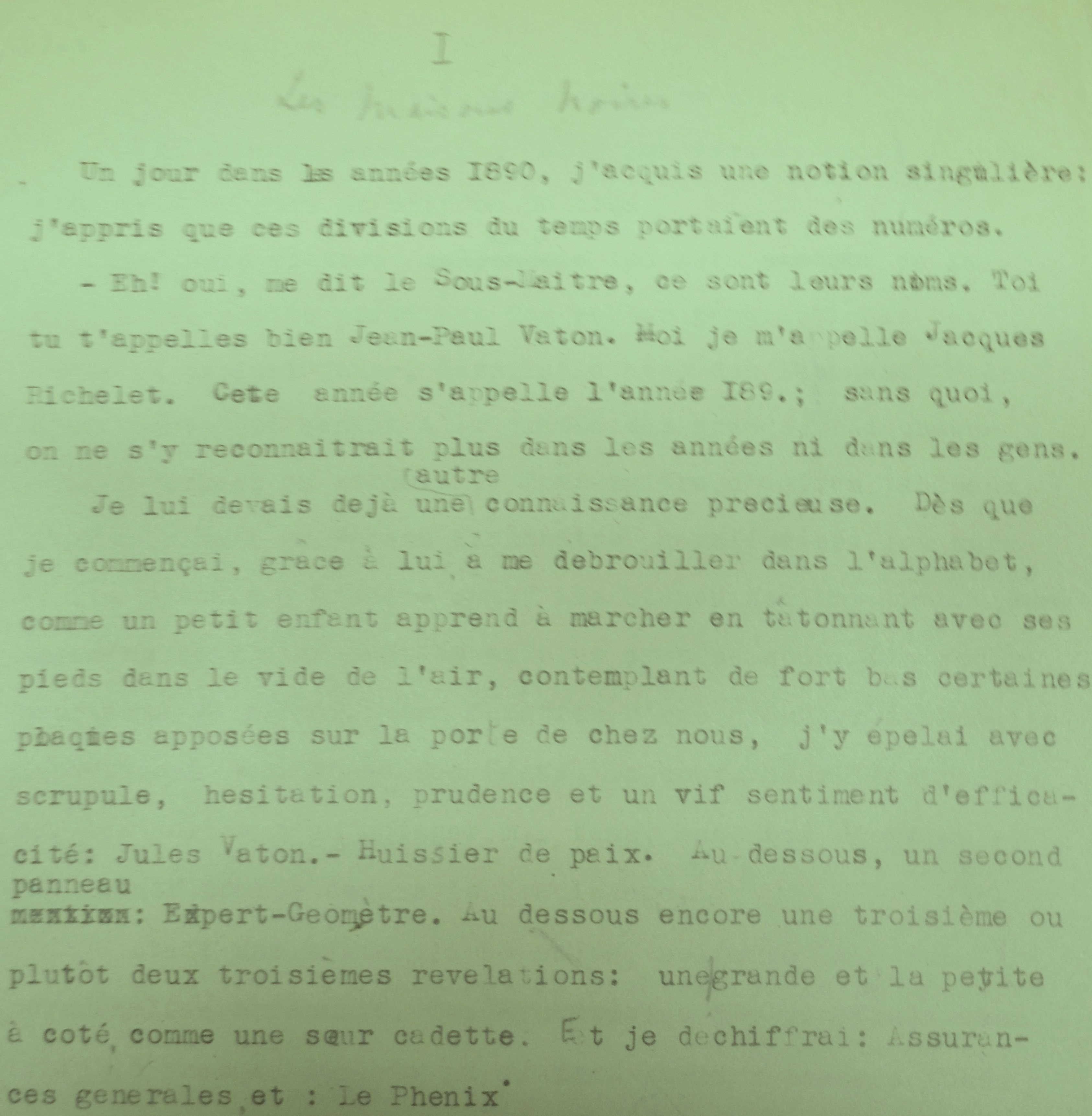 Type script of "Pierres noires" in 1929